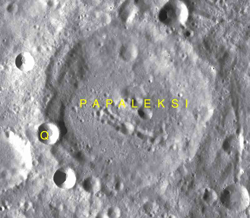 Part of the chart LAC-67 used for the presentation